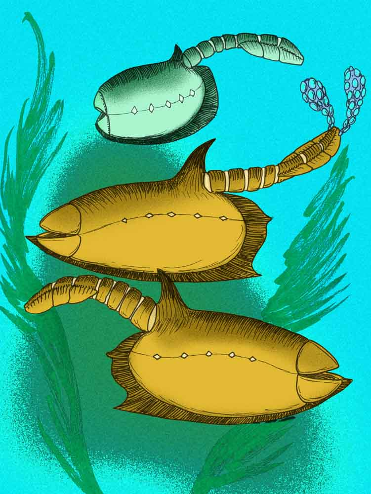 My reconstruction of various species of the Vetulicolian genus Vetulicola. Including V. rectangulata (top), and V. cuneata. From the Chengjiang Fauna, of Early Cambrian China-East Asia and the United States-North America.